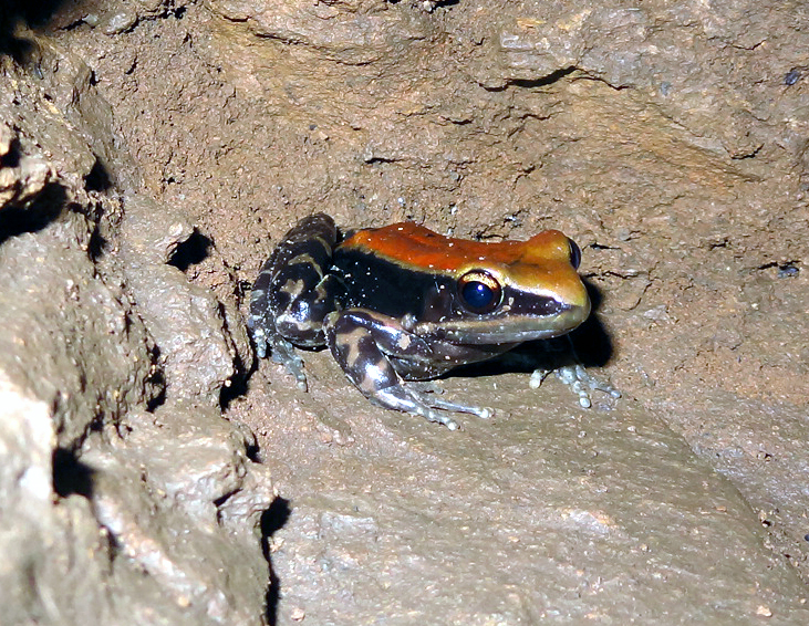 Hylarana malabarica, a cave frog of India